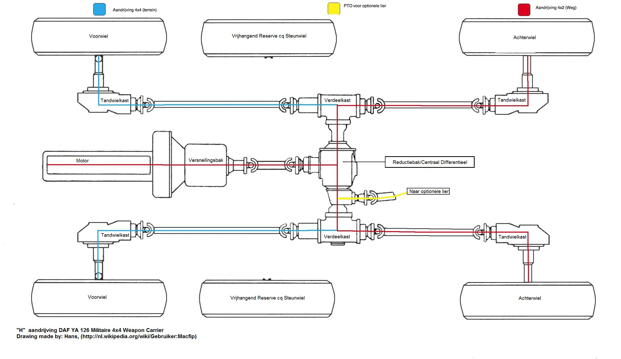 Schematic drawing of a rare drive train from a DAF YA126 all terrain truck